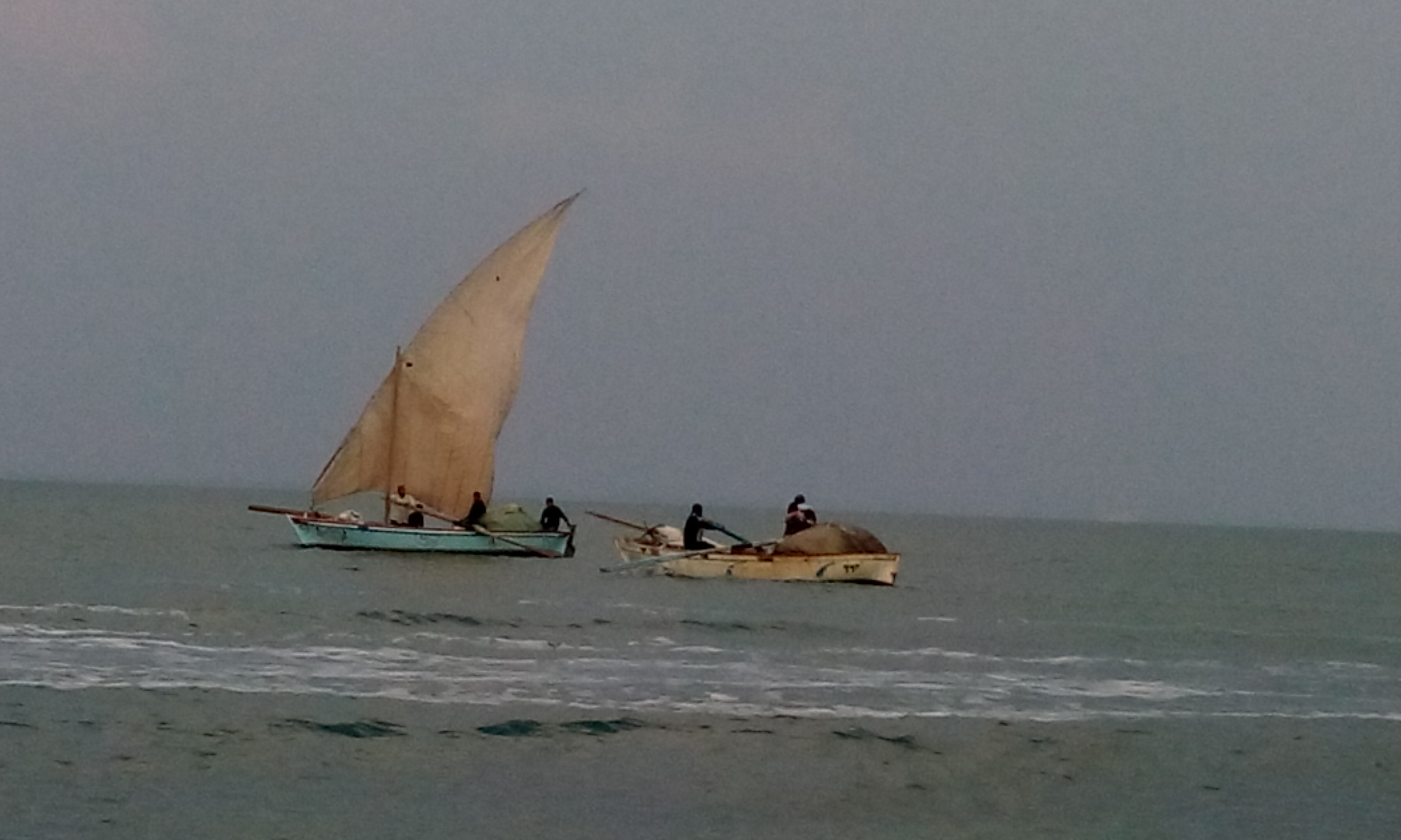 Boats in Great Bitter Lake (from Fayid)